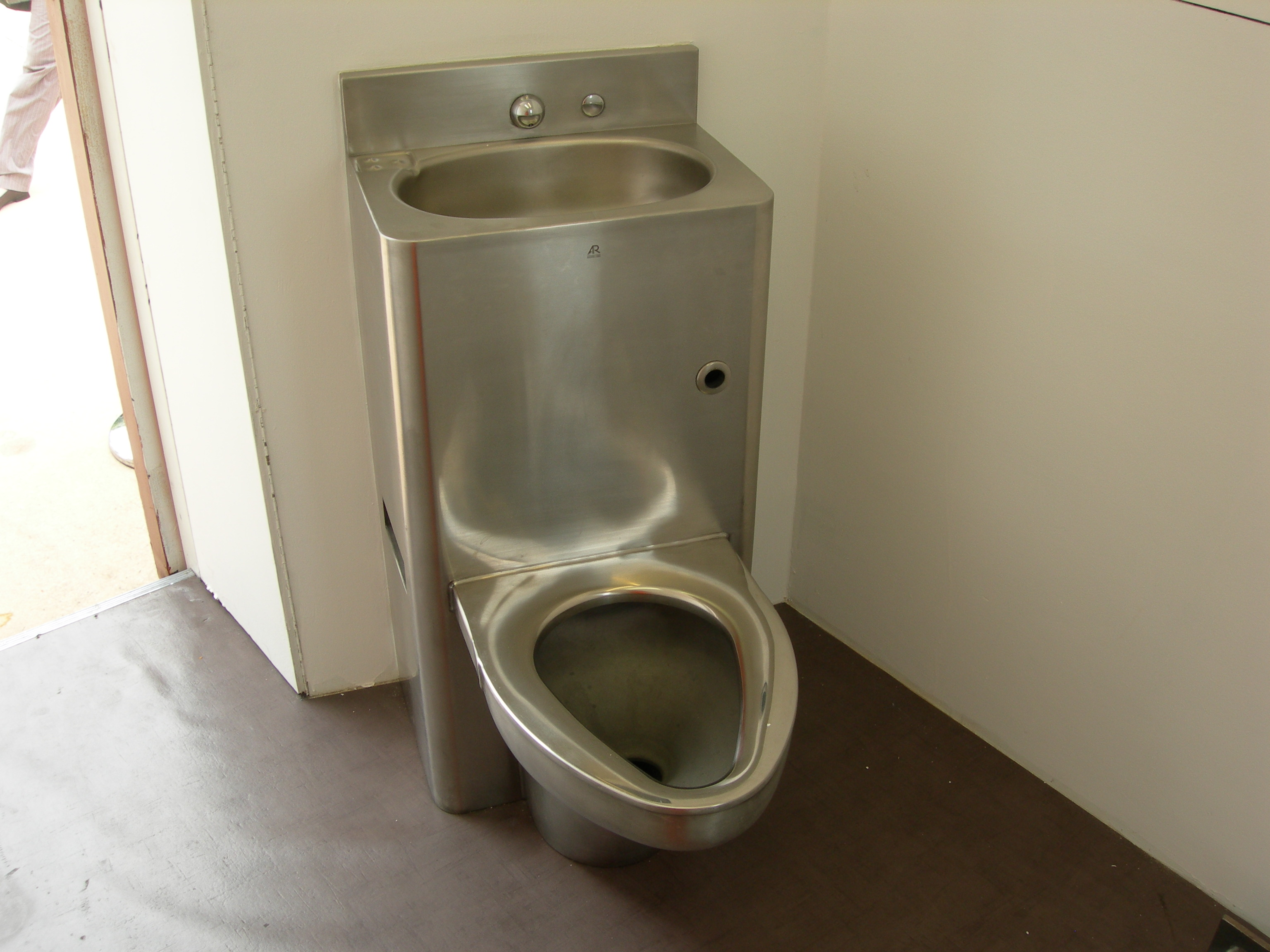 Toilet in mock Guantanamo Bay prisoner cell used in Amnesty International protest; taken in Miami, Florida in May, 2008.